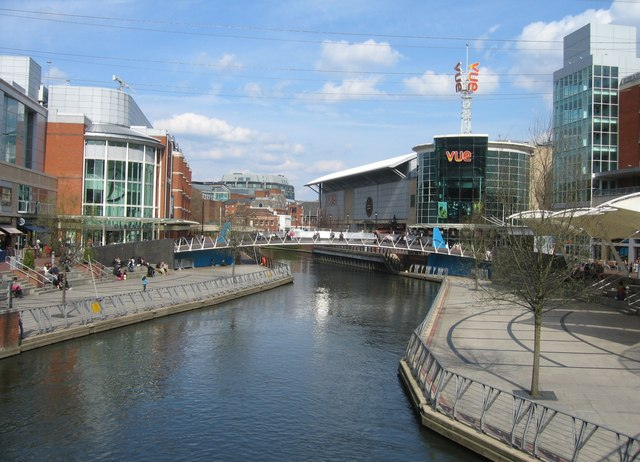 Delphi Bridge & River Kennet